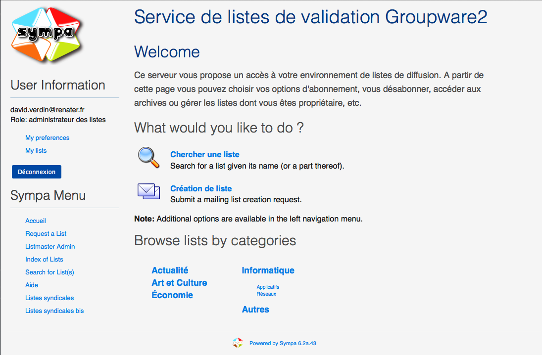 Home page of Sympa 6.2 server